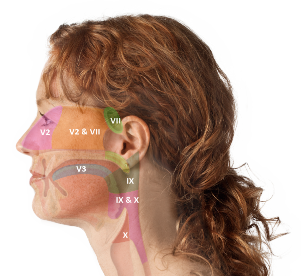 Head anatomy with the cranial nerves drawn on